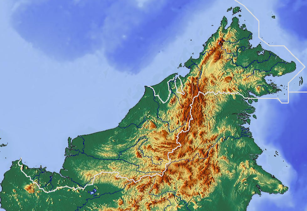 Relief map of Malaysia (Borneo) Geographic limits of the map: N: 7.733° N S: 0.549° N W: 99.163° E E: 105.084° E